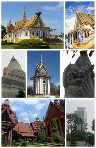 File:Royal.Place.Phnom.Penh.Palais.Royal.Cambodge.001.jpg File:Stupa of King Ponhea Yat.JPG File:Royal palace.Cambodia.jpg File:Cambodia 08 - 024 - lion and Naga statues (3198664247).jpg File:Phnom Penh, Killing Fields of Choeung Ek (6226142426).jpg File:National.museum.jpg [1]